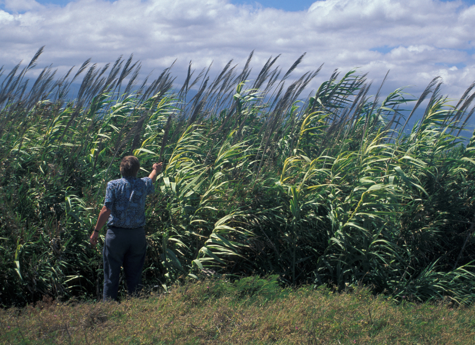 A Giant Reed (Arundo donax).